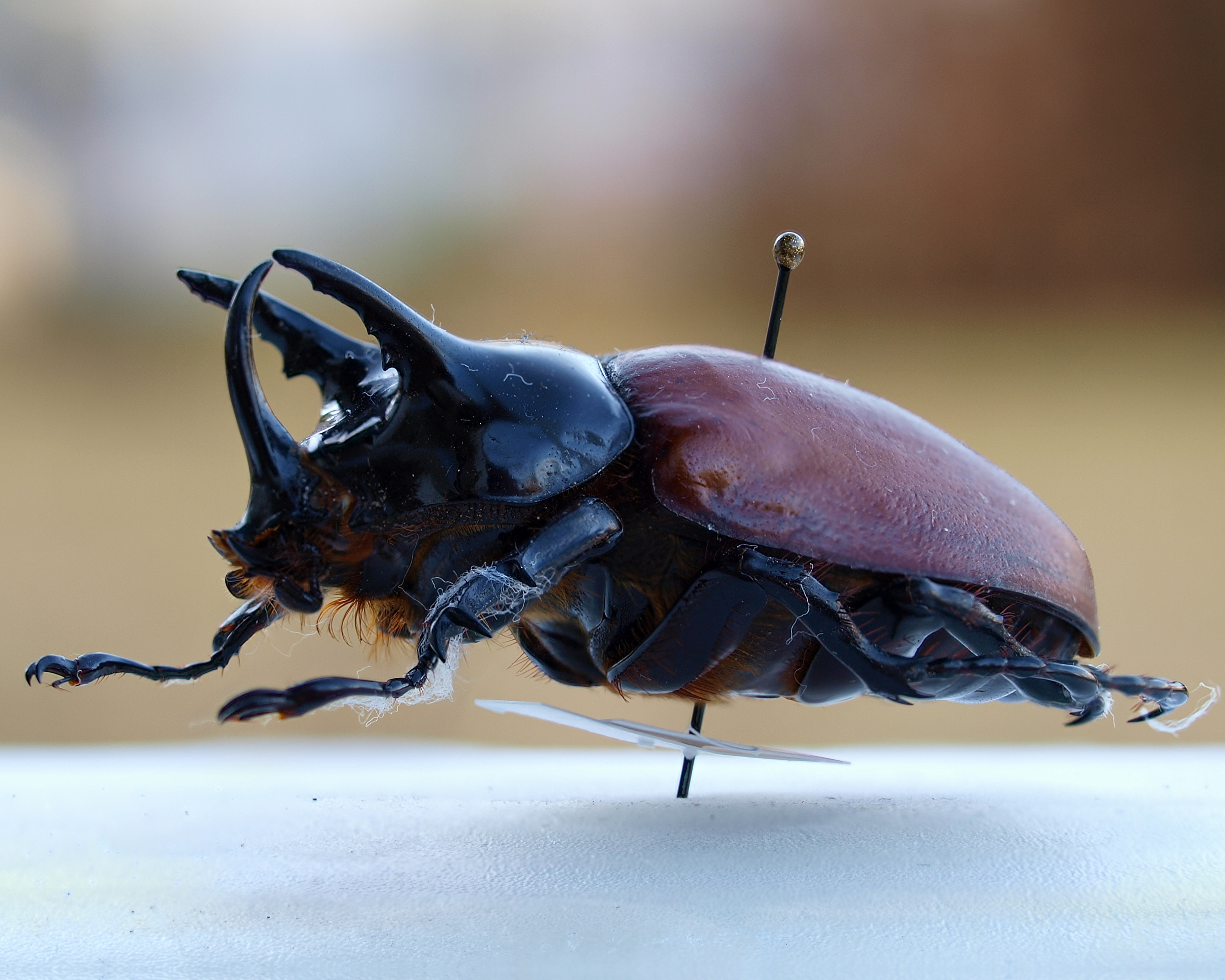 Beckius beccarii, male. Source: own collection